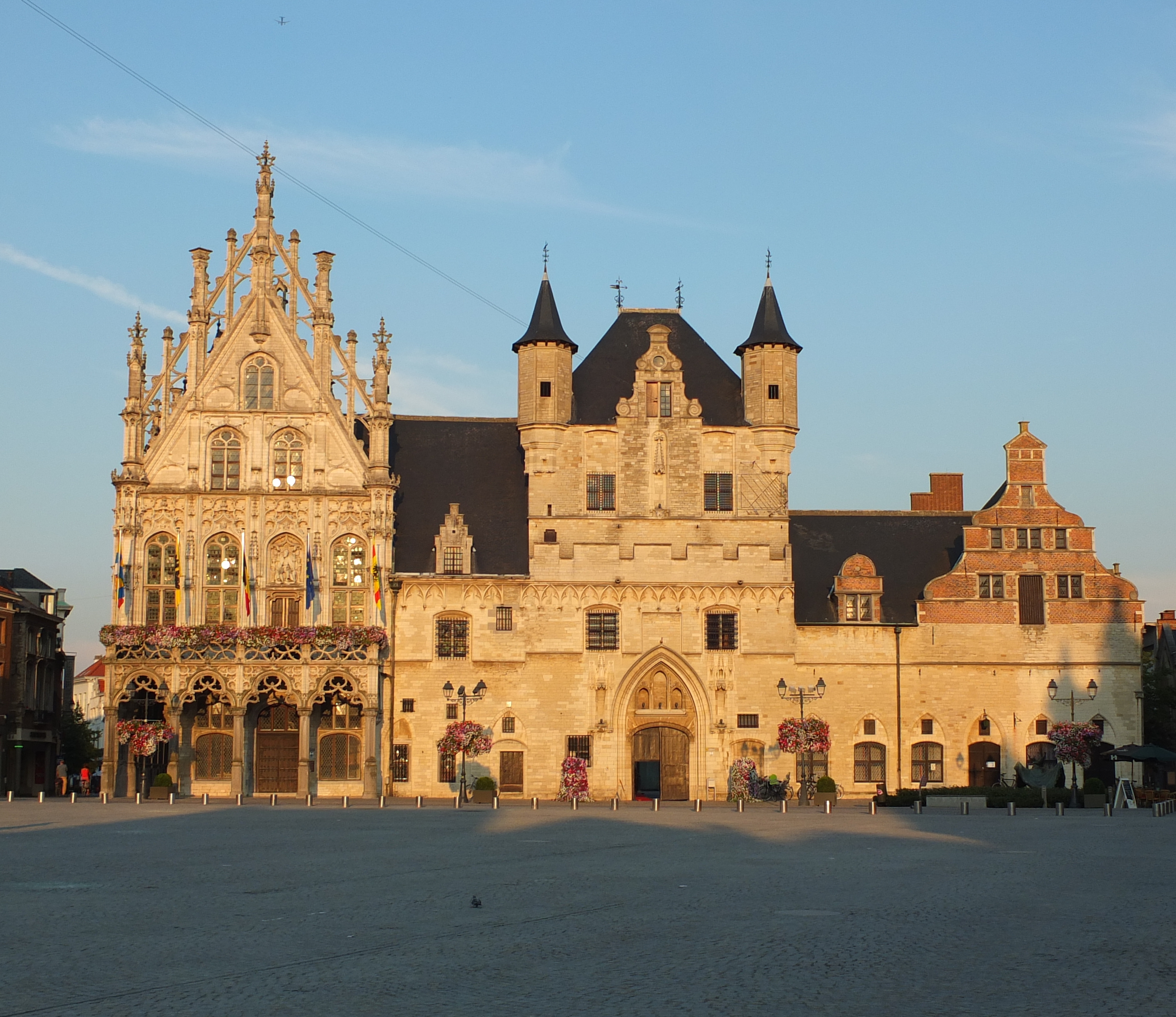 The City Hall of Mechelen, Belgium.